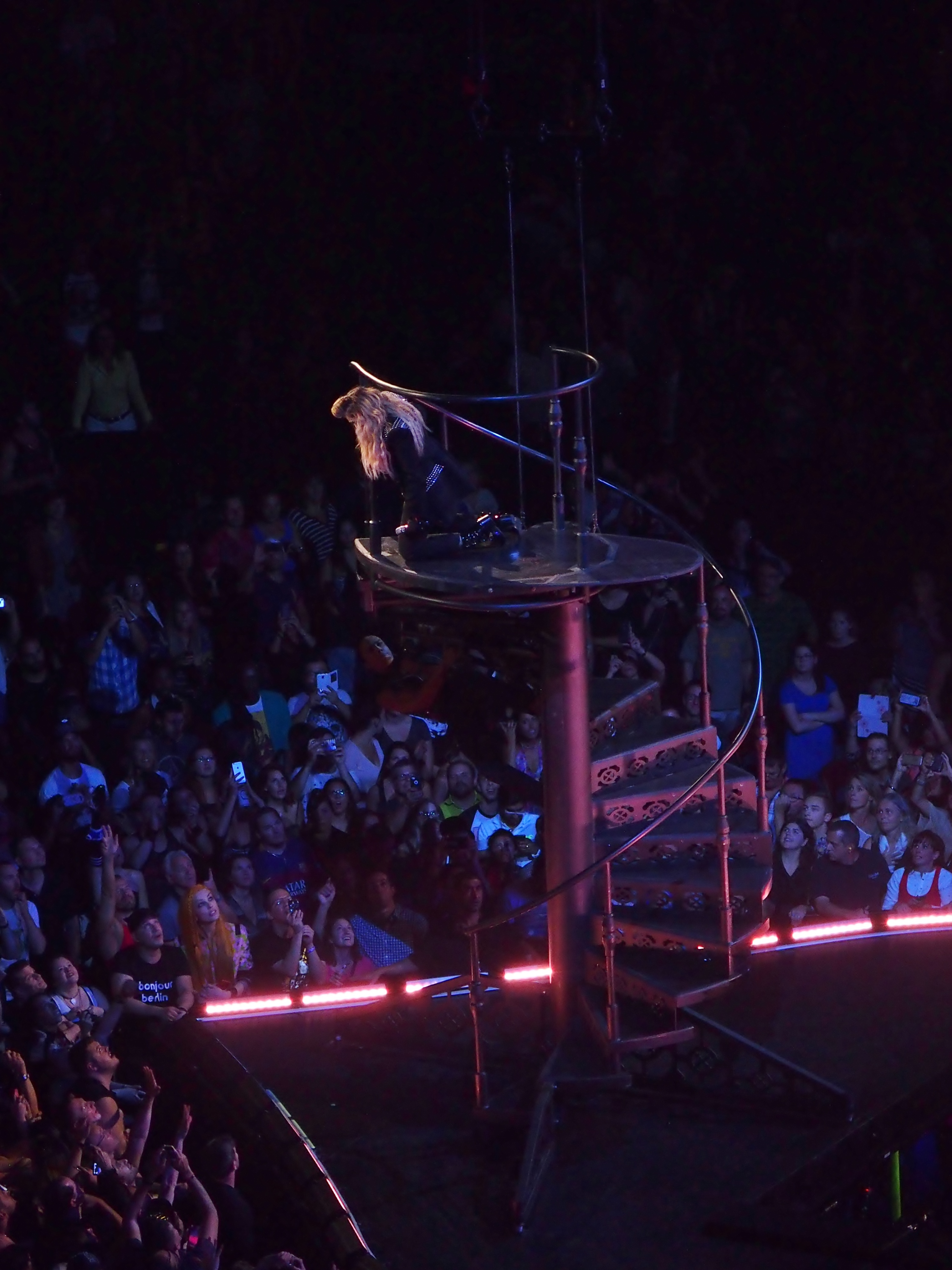 Madonna, Rebel Heart Tour, Bell Center, Olympus Stylus 1, Montréal, 10 September 2015 (48) Madonna performing on the Rebel Heart Tour